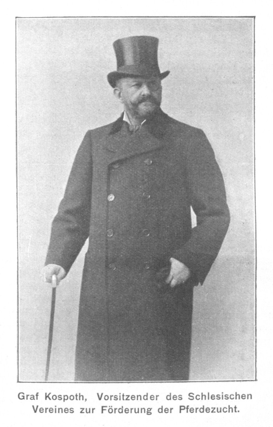 Photograph of Karl August Graf von Kospoth (1836-1928), chairman of Silesian Horse Breeding Association.